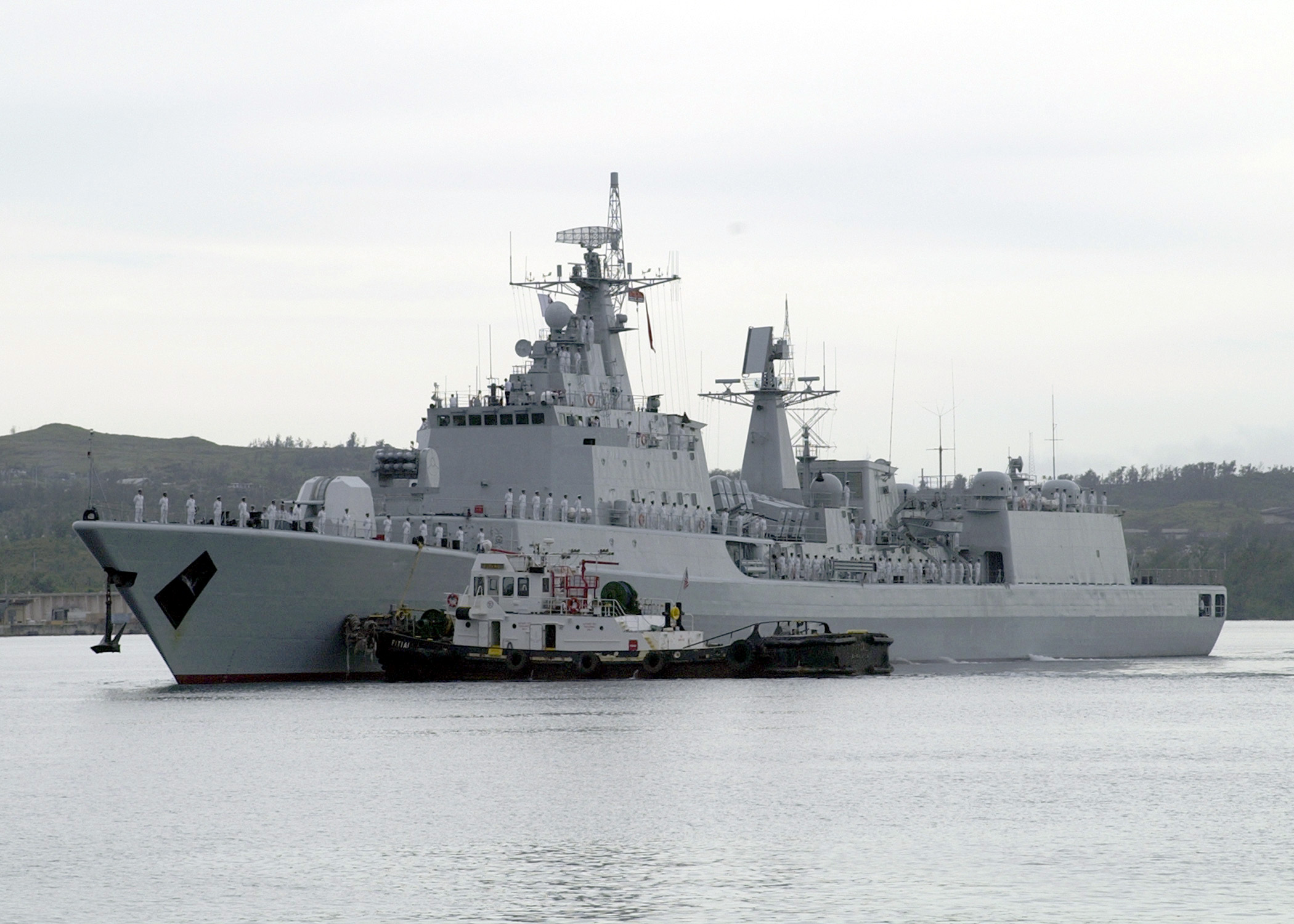 Der Lenkwaffenzerstörer Shenzhen (DDG 167) der chinesischen Volksbefreiungsarmee beim Besuch des US-Marinestützpunktes Arpra, Guam. Santa Rita, Guam (Oct. 25, 2003) Assisted by the tugboat Fitial, the People's Liberation Army Navy (PLAN) guided missile destroyer Shenzhen (DDG 167) gets underway from Apra Harbor, Guam, following a three-day port call. The PLAN Shenzhen and PLAN oiler Qinghai Hu (AO 885) made the People's Republic of China's first-ever naval port call to Guam.